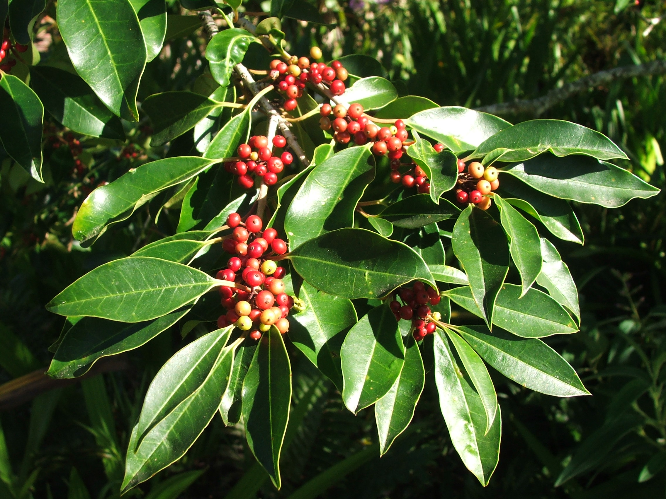 The fruits of the Ilex mitis tree. Cape Holly. South Africa.